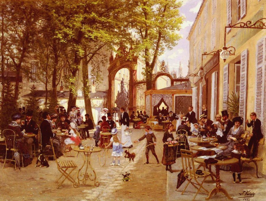 La terrasse du café du glacier, place Stanislas à Nancy by Léon Joseph Voirin; Oil on canvas 70 x 91 cm (27.56" x 35.83")